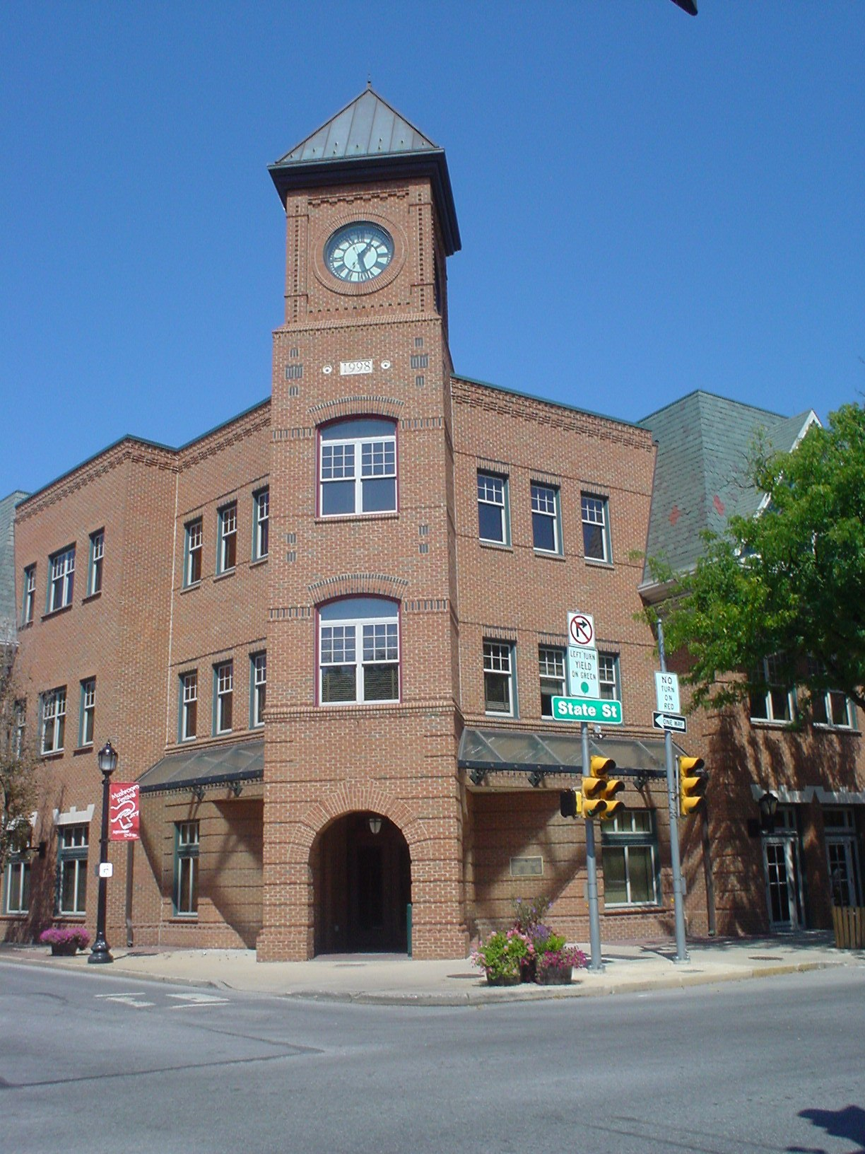 Clock Tower in Kennett Square, PA on Labor Day, 2009. My own work, I donate it to the Public Domain